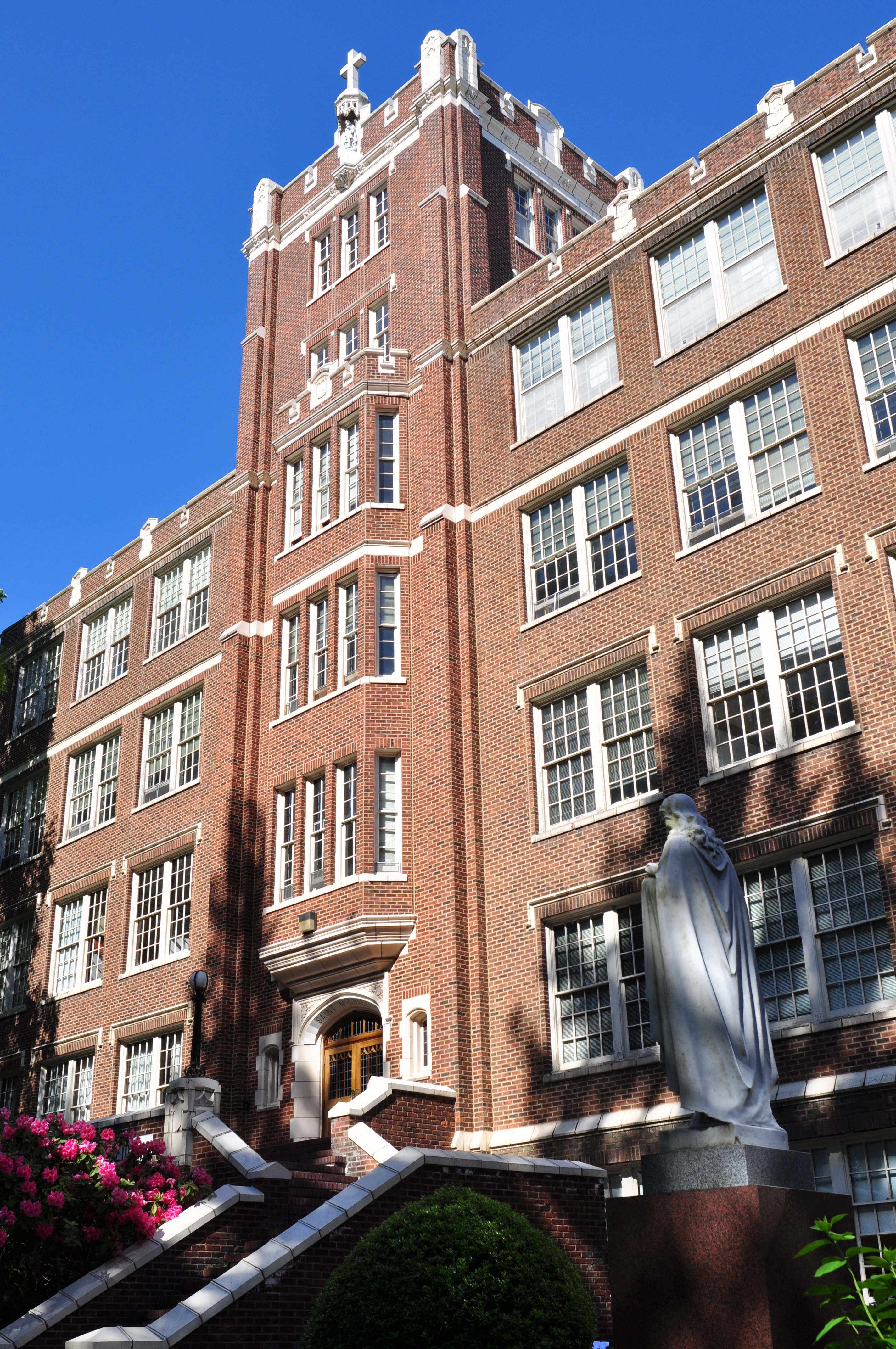 Villa Academy, Seattle, Washington, U.S. Main (Saint Michael) building.